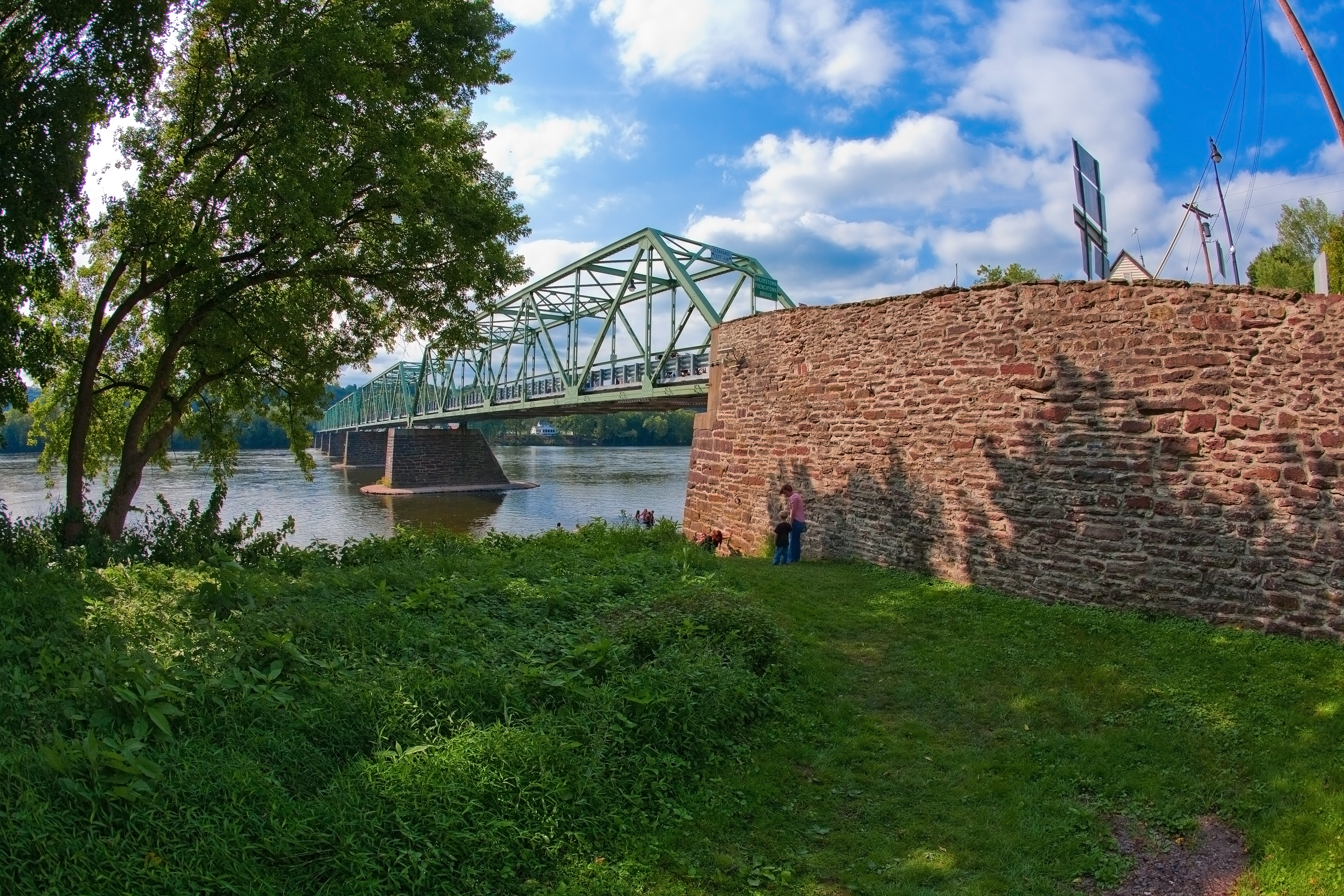 The Uhlerstown Frenchtown Toll Supported bridge